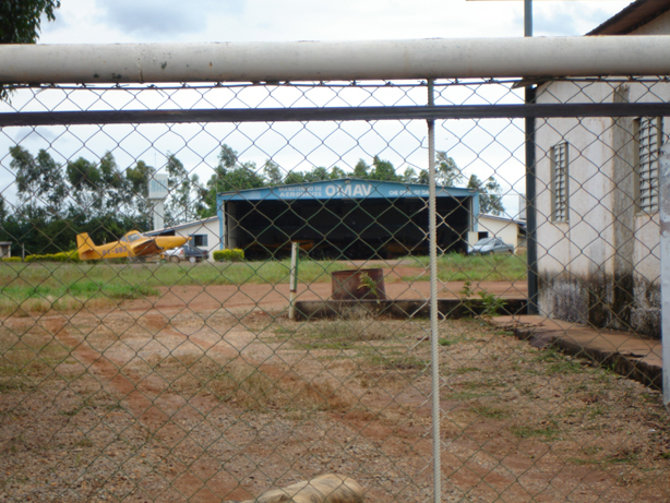 Photo showing the main hangar of the airport of Unaí. ICAO: SNUN